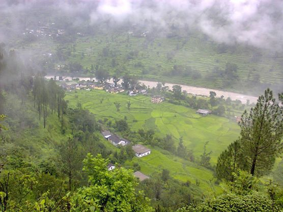 This image has been taken by Karan Rawat and free to use by anybody. this image represent the greenery of kulsari village and anybody can enjoy the view and share it on different platform. Kulsari